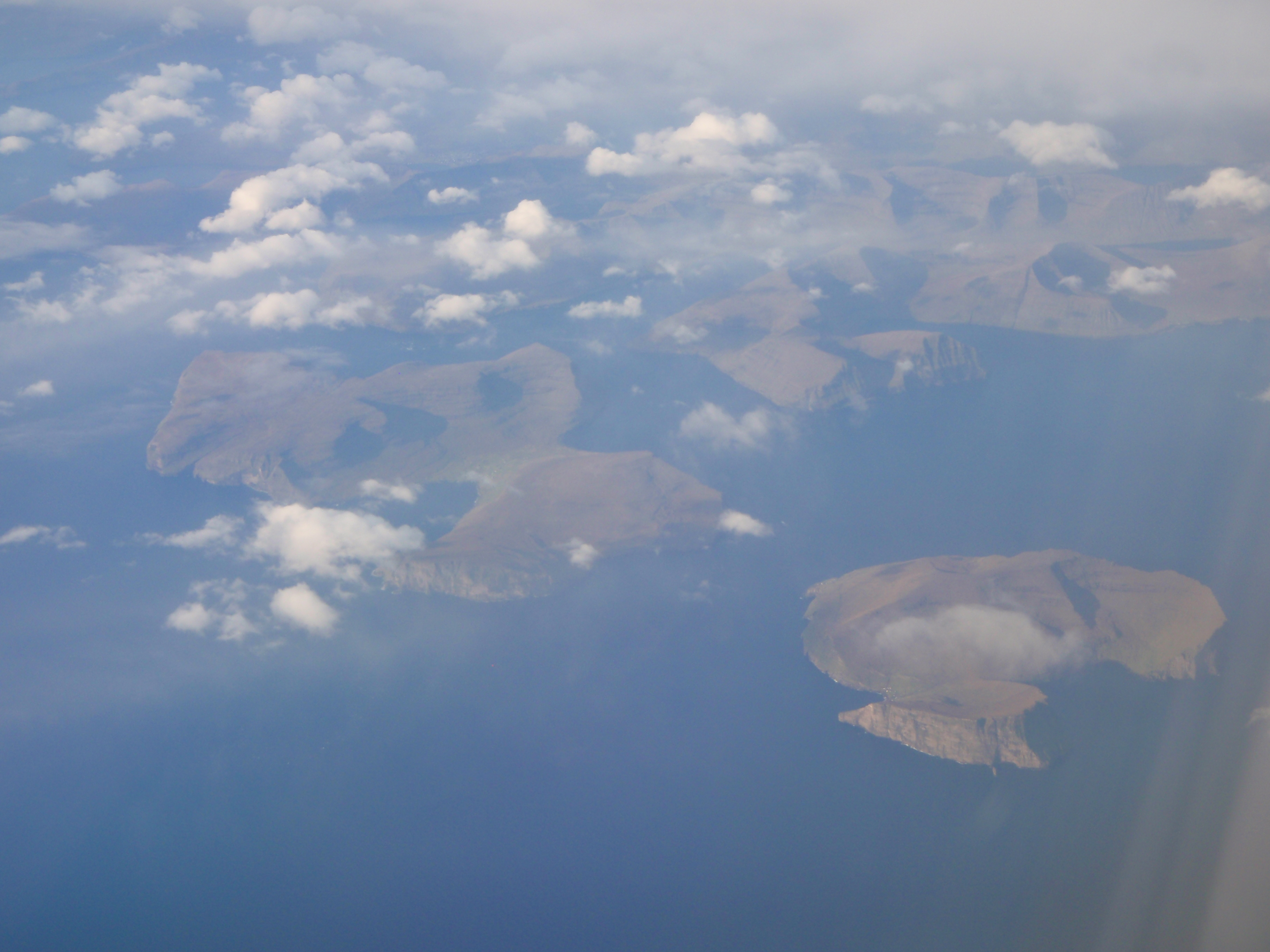 Aerial photographs of the northeastern part of the Faroe Islands. Clearly visible in the foreground are the isles of Svínoy (left) and Fugloy (right).